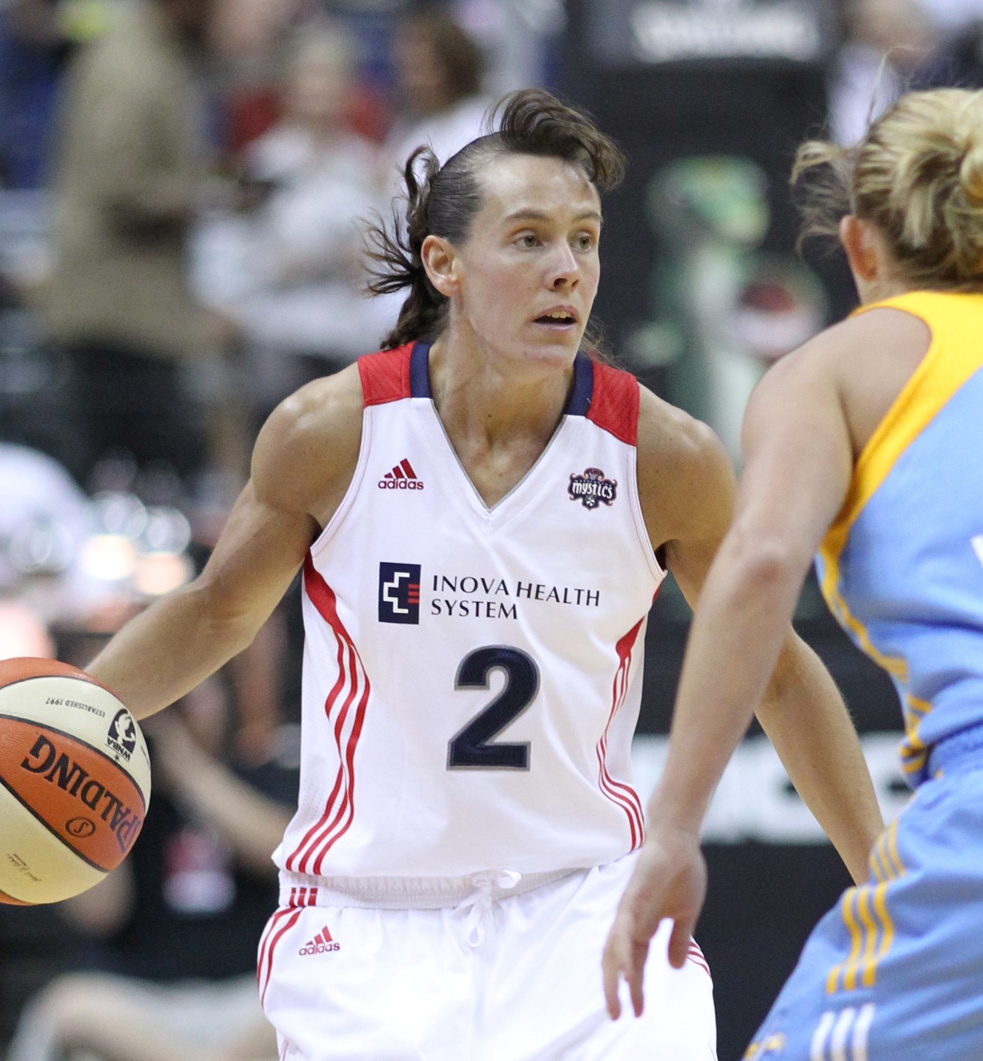 Kelly Miller of the Washington Mystics (at time of picture)